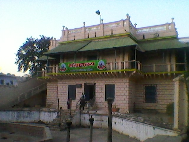 gwlalior museum, nagar palika